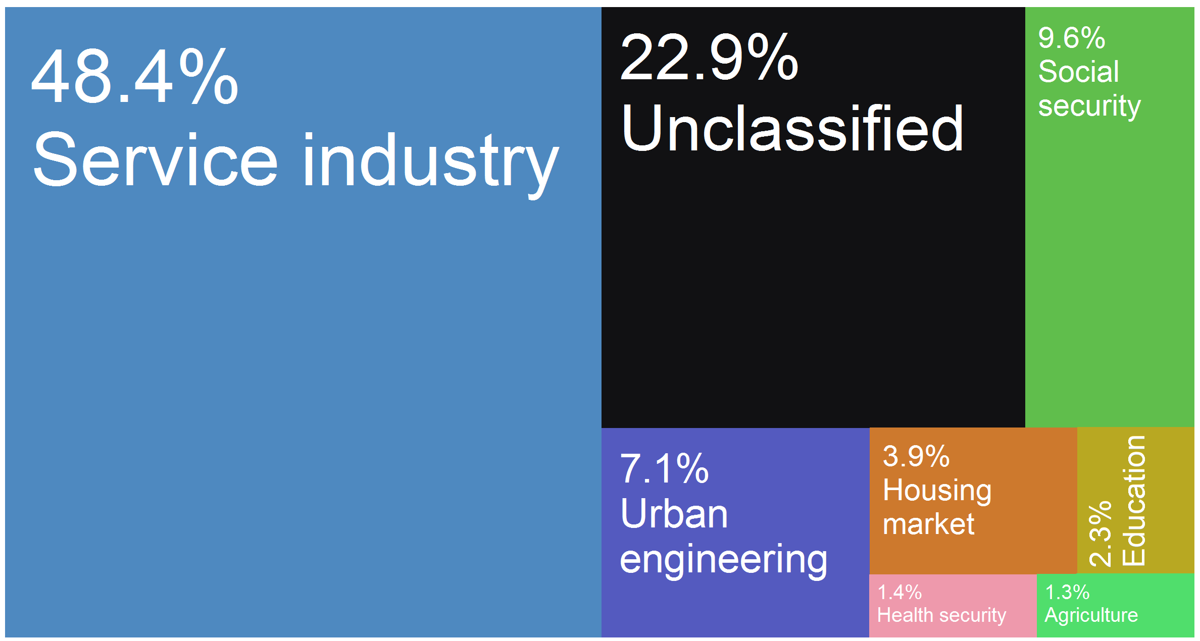 Diagram illustrating the city's budget sources.